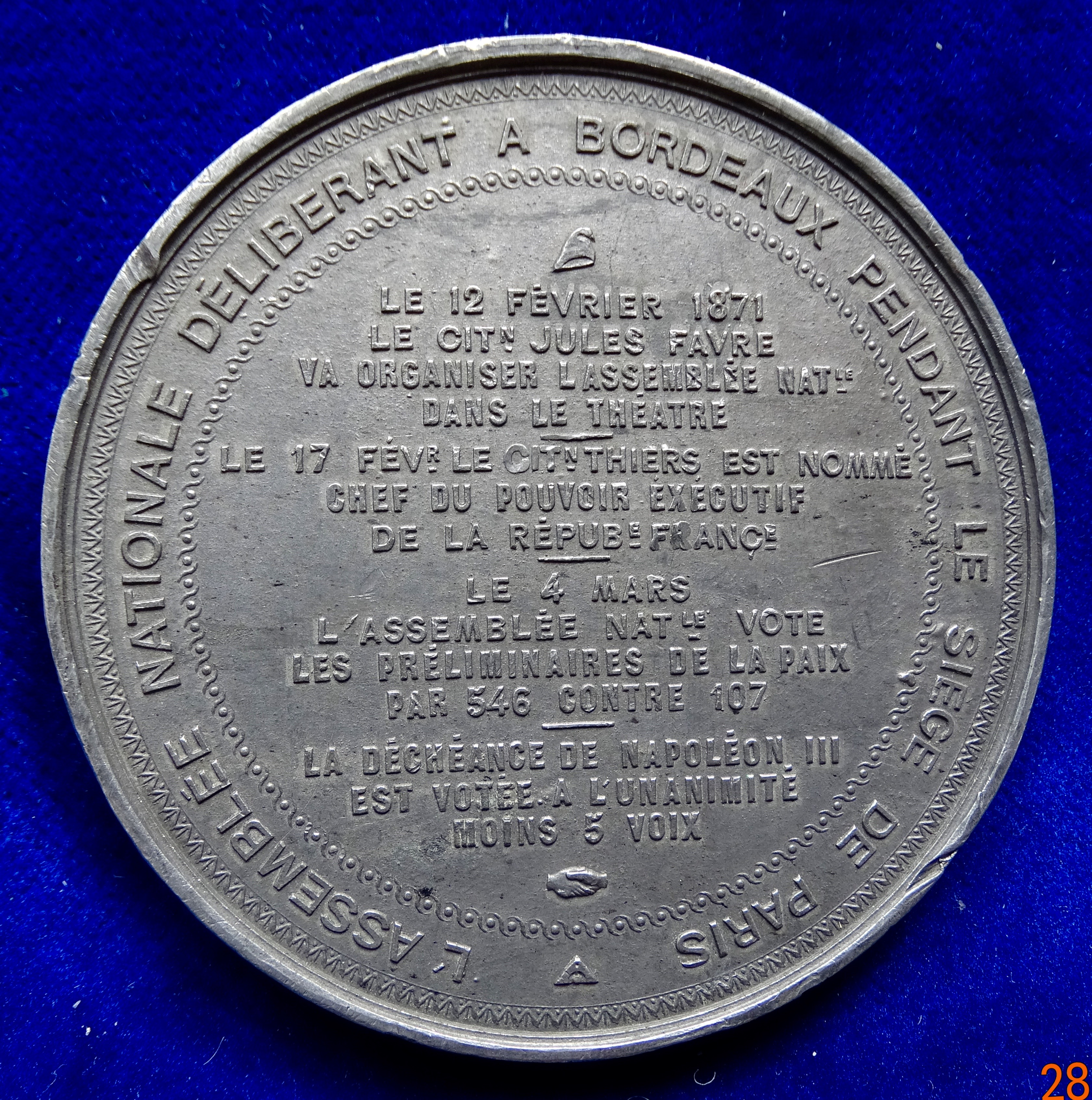 Base metal medallion d. = 64 mm. Coat of arms of Bordeaux, around: "* RÉPUBLIQUE FRANÇAISE * VILLE DE BORDEAUX *"/ "L' ASSEMBLÉE NATIONALE DÉLIBERANT A BORDEAUX PENDANT LE SIÈGE DE PARIS" around 14 lines: "LE 12 FÉVRIER 1871 LE CIToyeN JULES FAVRE VA ORGANISER L ASSEMBLÉE NATionaLE DANS LE THÉATRE - LE 17 FEVRier LE CIToyeN THIERS EST NOMMÉ CHEF DU POUVOIR ÉXÉCUTIF DE LA RÉPUBubliquE FRANCaisE - LE 4 MARS L' ASSEMBLÉE NATionaLE VOTE LES PRÉLIMINAIRES DE LA PAIX PAR 546 CONTRE 107 - LA DÉCHÉANCE DE NAPOLÉON III EST VOTÉE A L' UNANIMITÉ MOINS 5 VOIX". Condition: VERY FINE, several edge nicks.